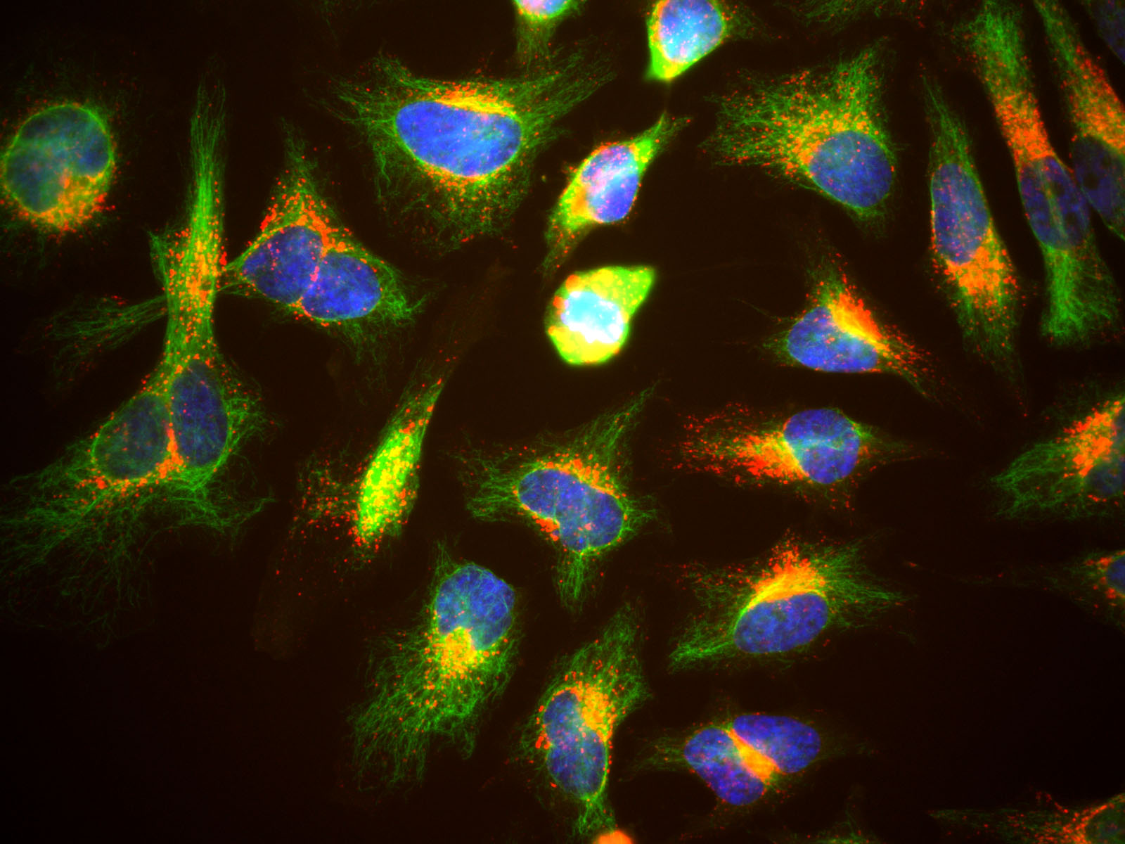 HeLa cells stained with antibody to lysosomal LAMP1 in red and antibody to filament protein vimentin in green. Nuclear DNA shown in blue.